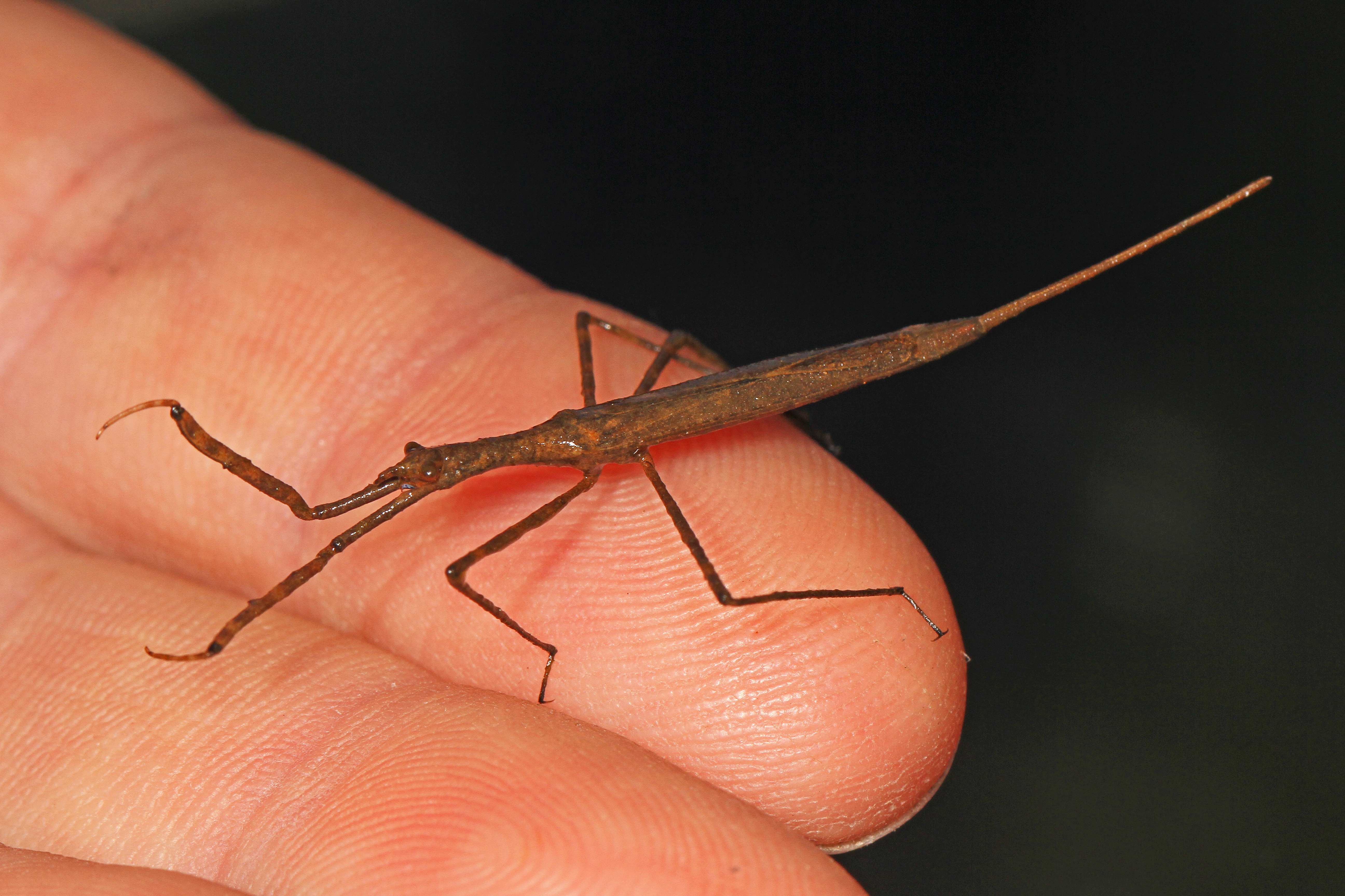 Water Scorpion - Ranatra species, Merrimac Farm Wildlife Management Area, Aden, Virginia